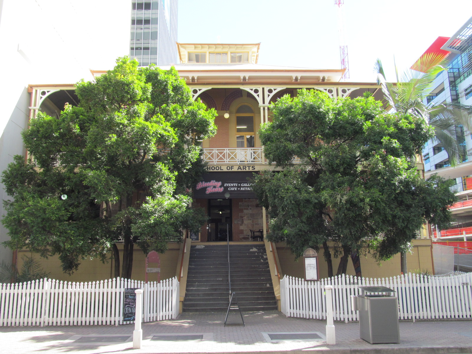 School of Arts hall in Ann Street, Brisbane, Queensland.